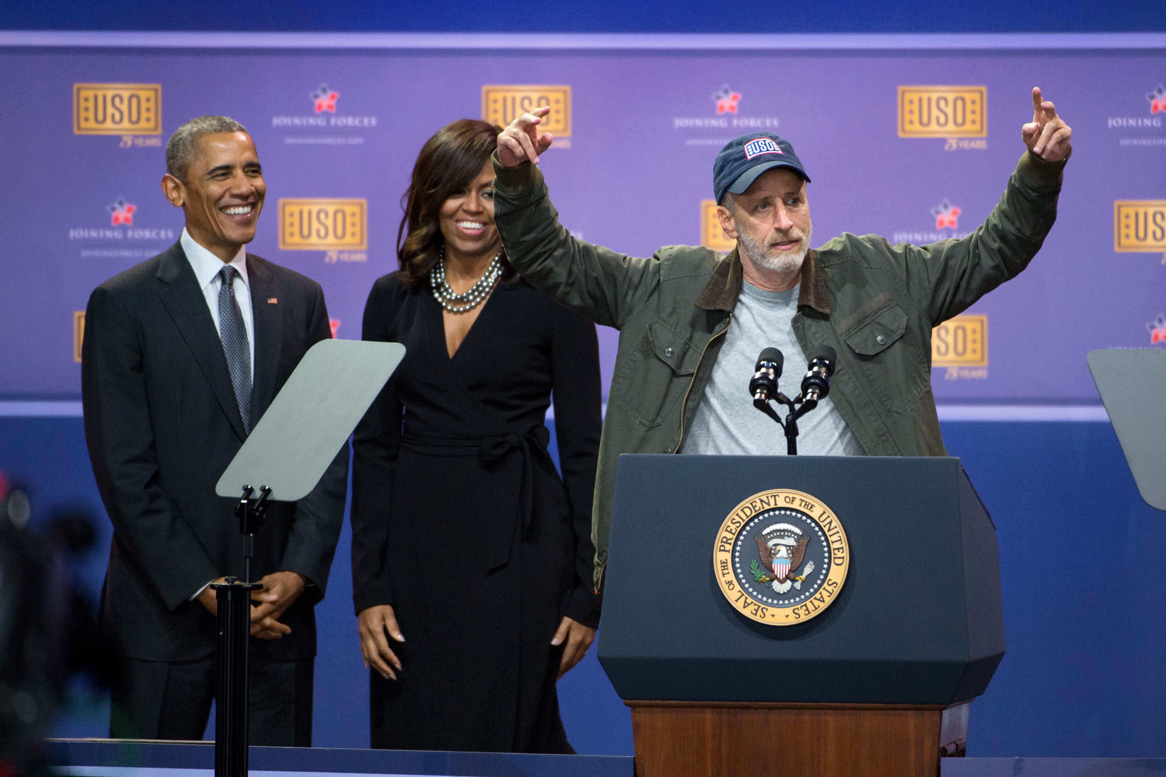 Former Daily Show host Jon Stewart tells jokes behind the president’s lectern as President Barack Obama and First Lady Michelle Obama look on during the comedy show in celebration of the 75th anniversary of the USO and the 5th anniversary of Joining Forces at Joint Base Andrews in Washington, D.C. May 5, 2016. Joining Forces is an initiative to help military, veterans and their families founded by Dr. Jill Biden and First Lady Michelle Obama. (DoD News photo by EJ Hersom)